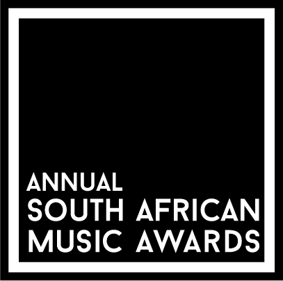 Annual South African Music Awards (SAMA) Generic Logo as introduced in 2016